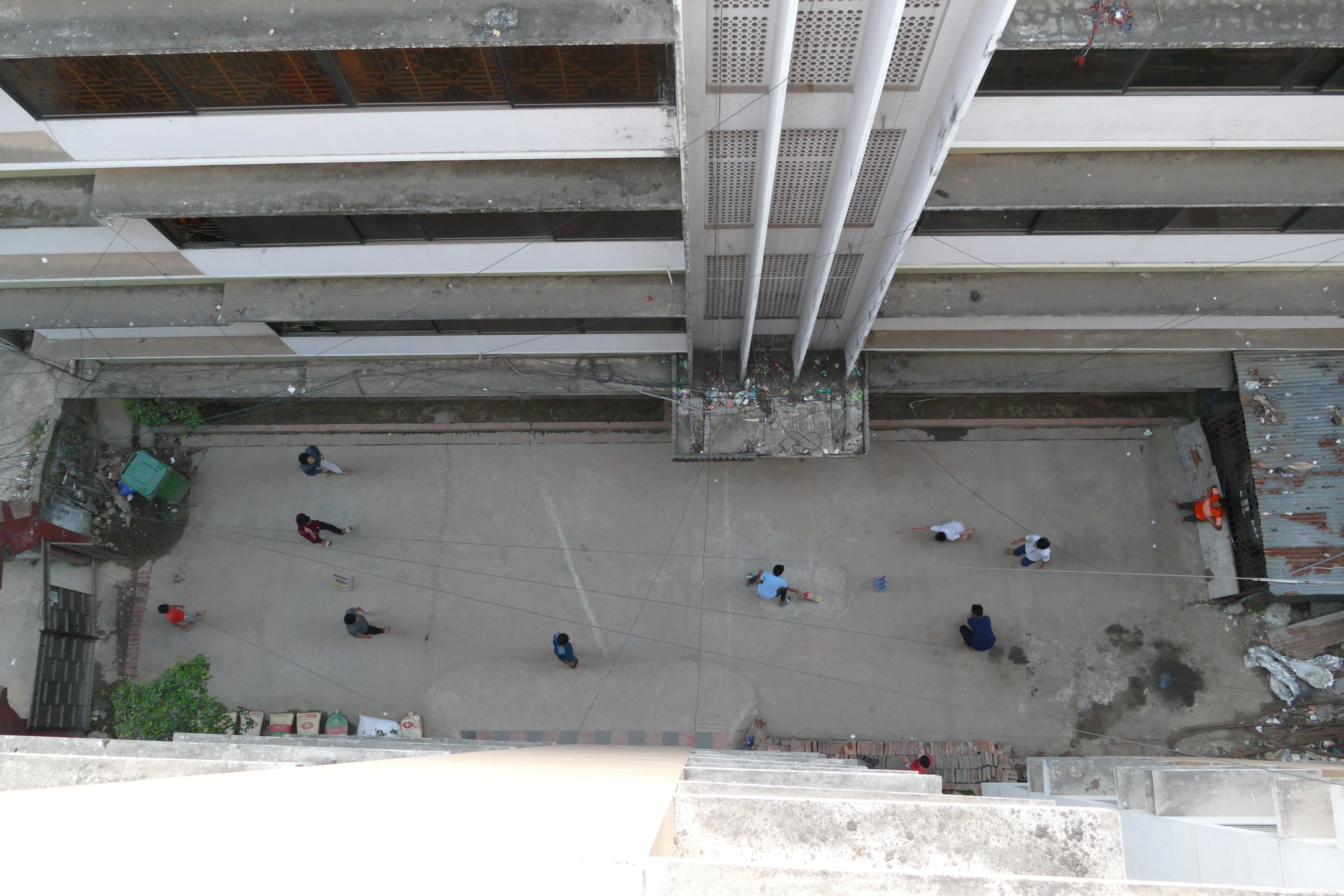 Street Cricket in a backyard in Chittagong